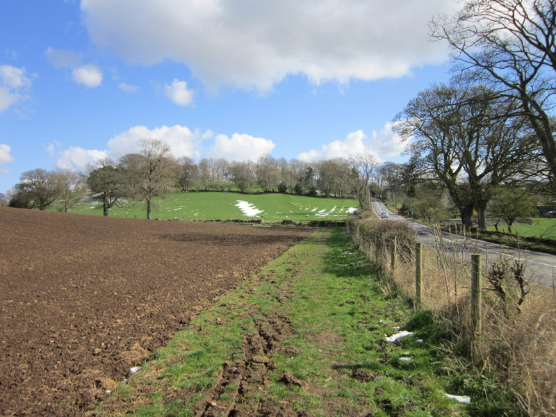 Heading east near Milecastle 26